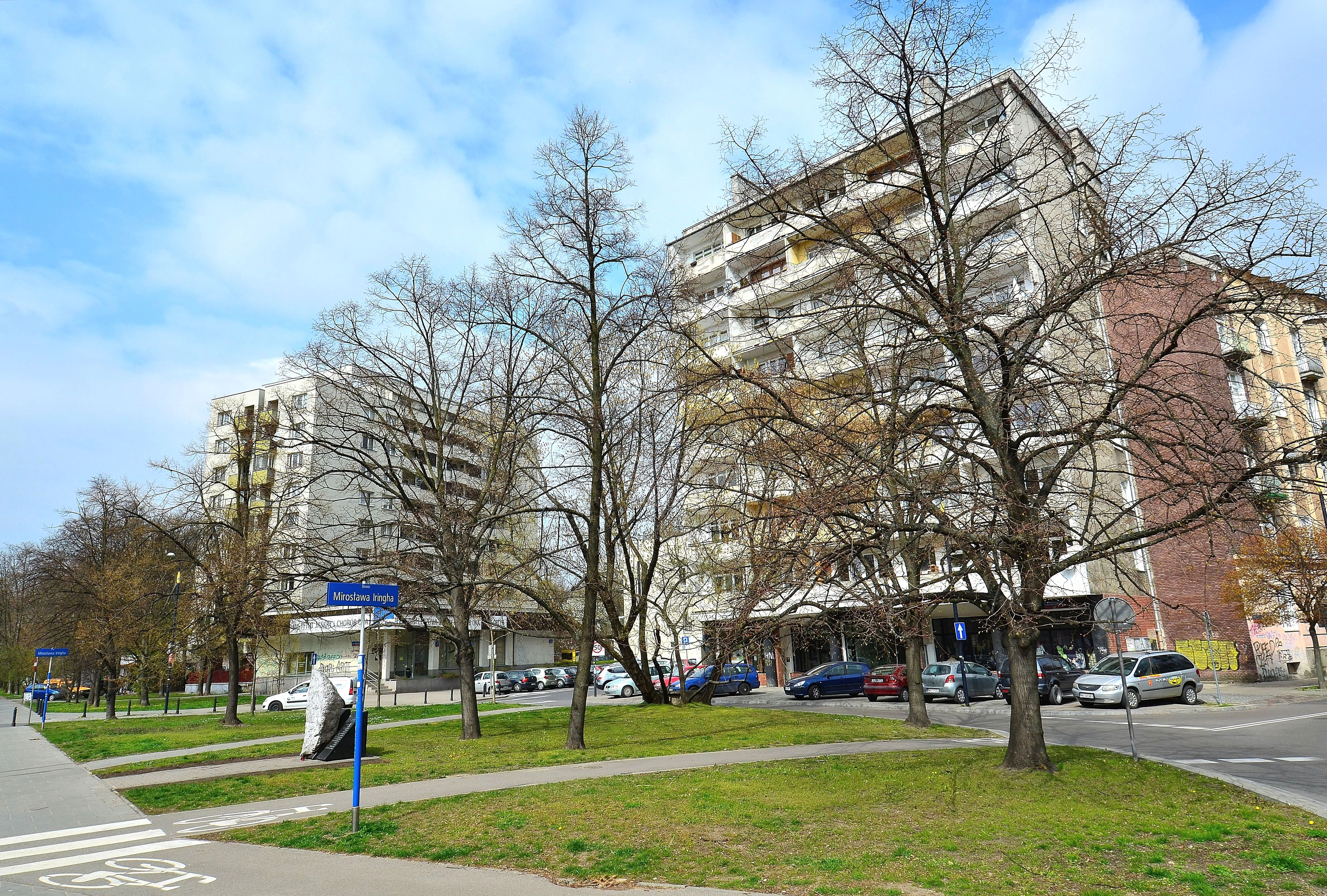 Miroslav Iringh Square in Warsaw